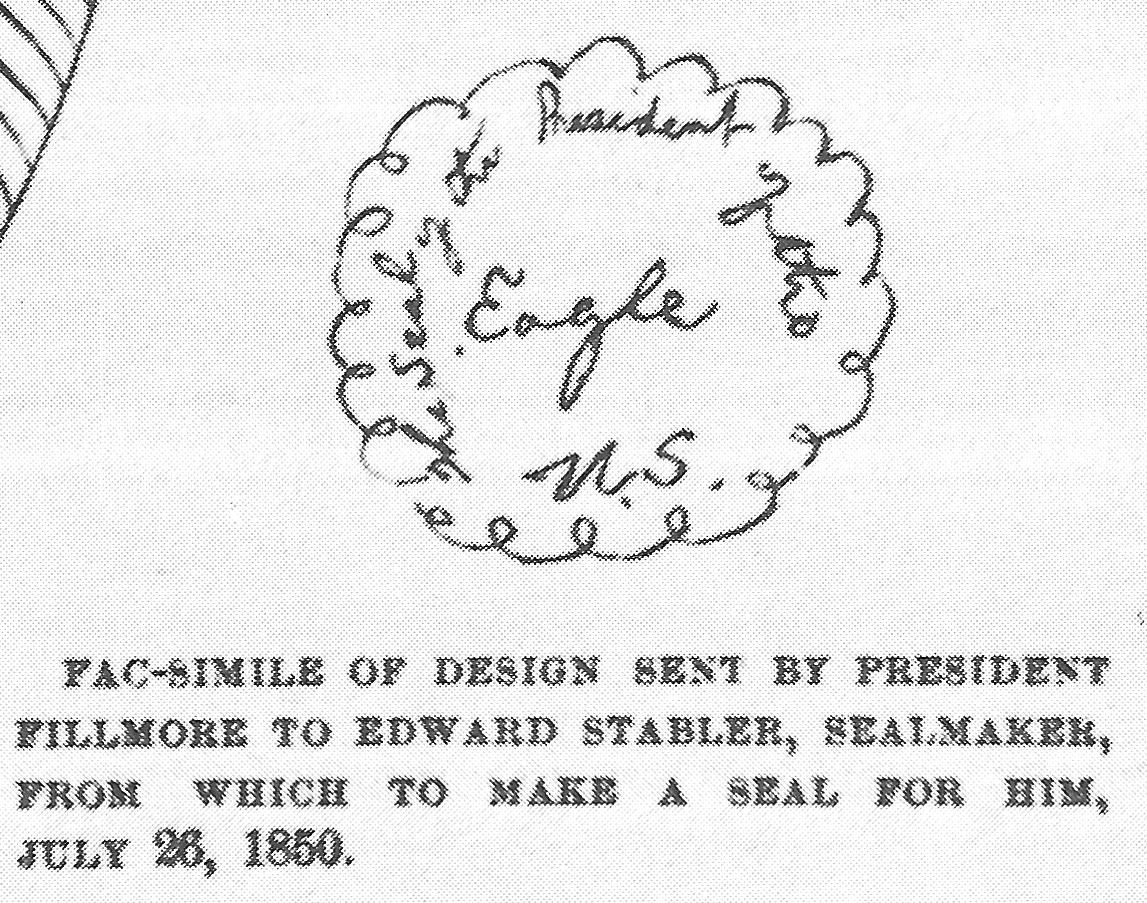 Design drawing submitted by U.S. President Fillmore in 1850 when ordering a new version of the presidential seal.